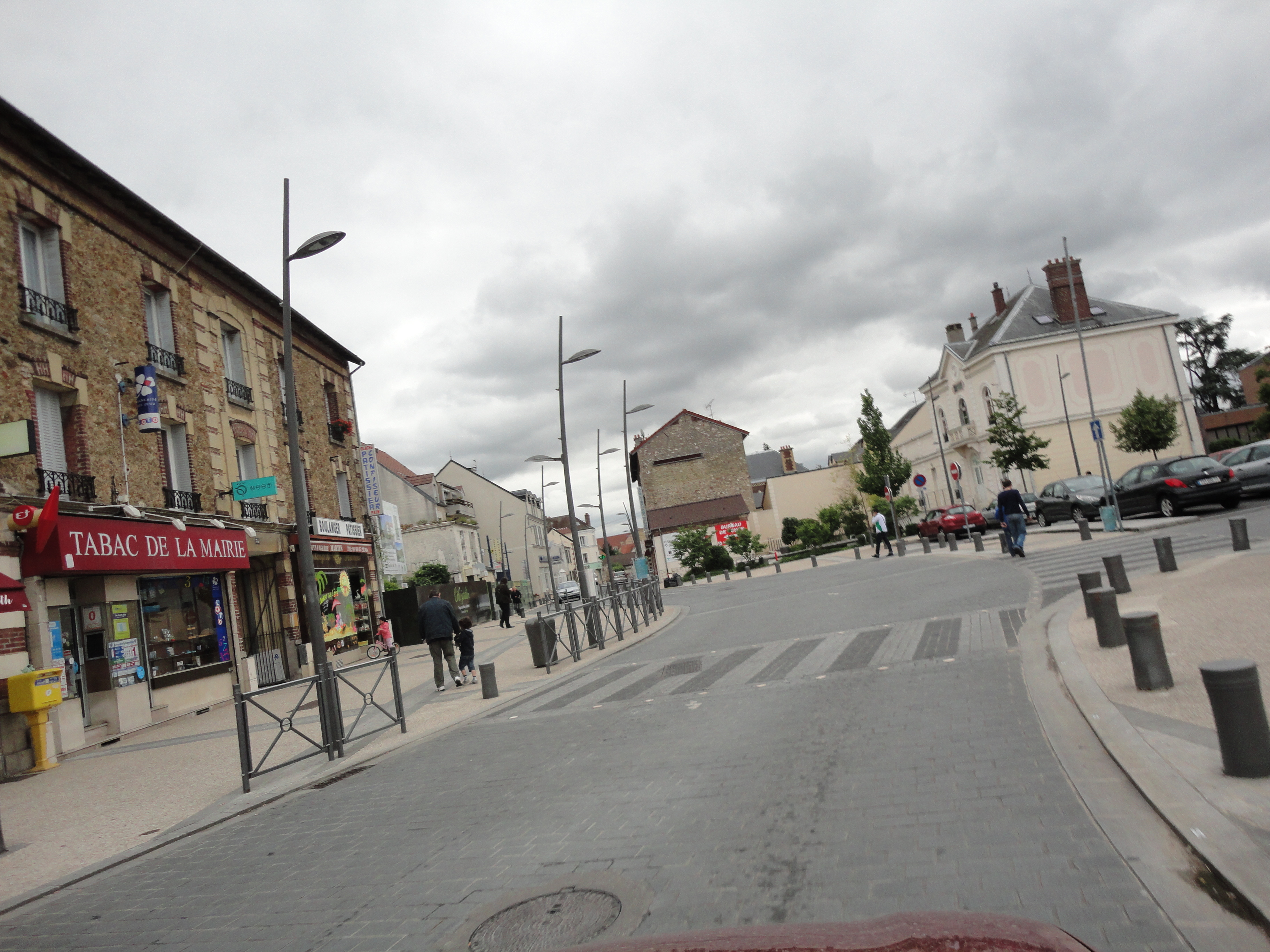 Rue de Paris at Torcy